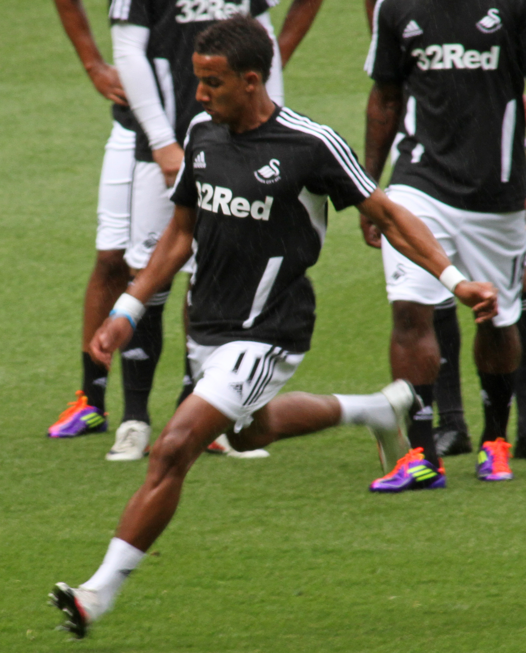 Scott Sinclair of Swansea City warming up for a match against Arsenal, September 2011